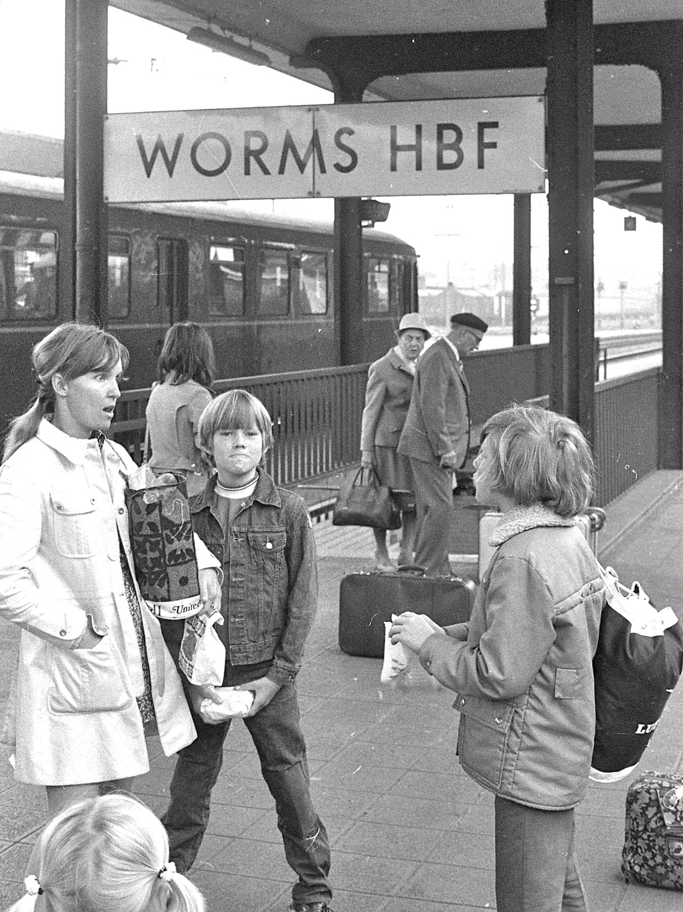 People waiting on the platform at the Worms in 1971. Other information Photo by George Garrigues